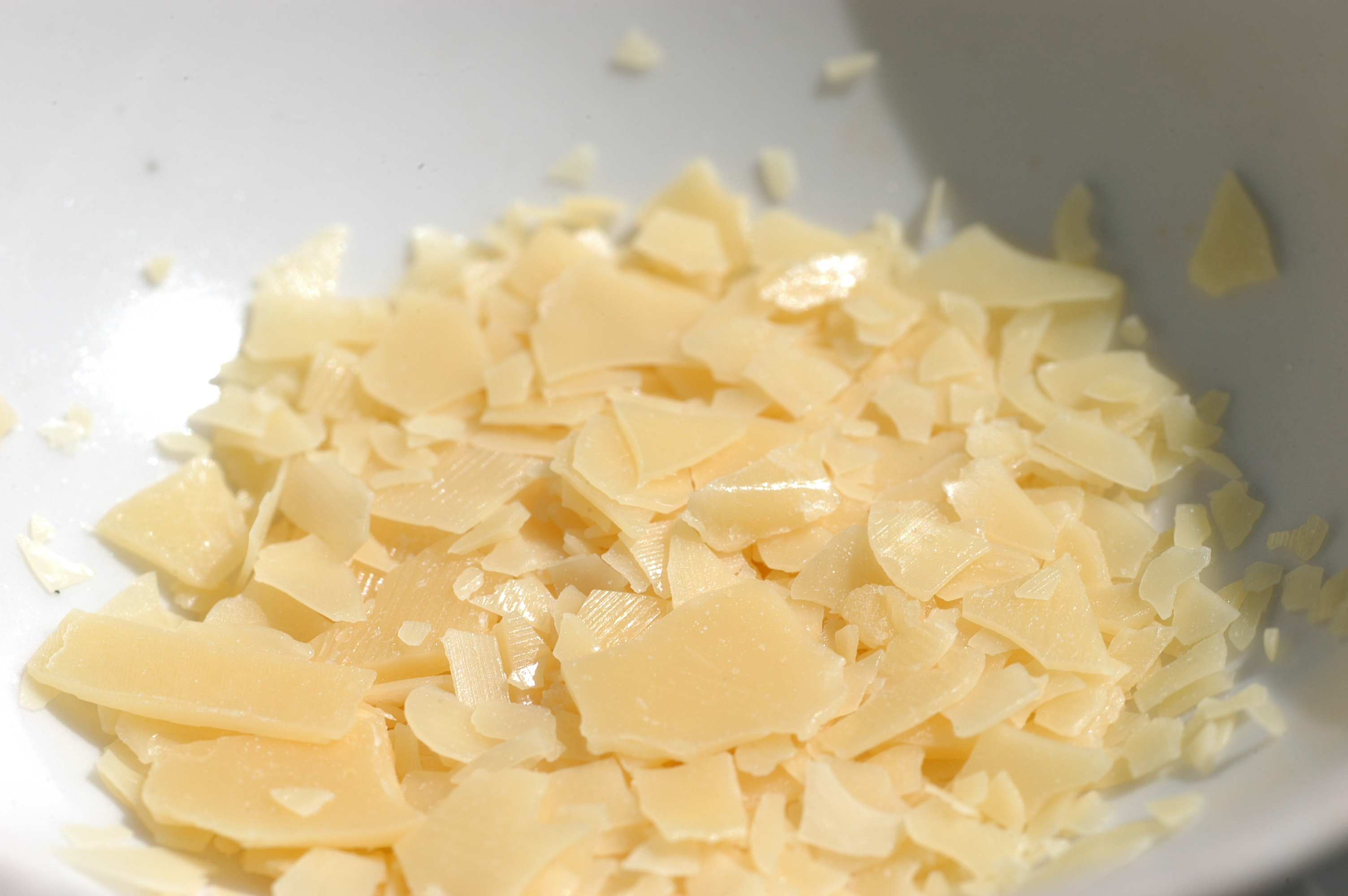 Carnauba wax